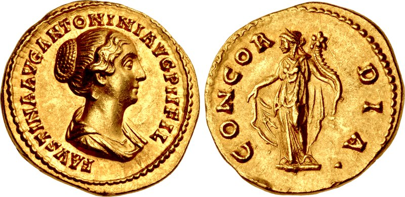 Faustina Junior. Augusta, AD 147-175. AV Aureus (20mm, 7.31 g, 6h). Rome mint. Struck under Antoninus Pius, circa AD 147-152. FAVSTINA AVG ANTONINI AVG PII FIL, draped bust right / CONCOR-DIA, Concordia standing facing, head left, holding hem of skirt in right hand, cornucopia in left. RIC III 500a (Pius) var. (obv. legend); Calicó 2043 var. (Concordia looking right); BMCRE 1078 note (Pius); Biaggi 918 var. (obv. legend). Choice EF. Well centered, and struck in high relief. Fine style.